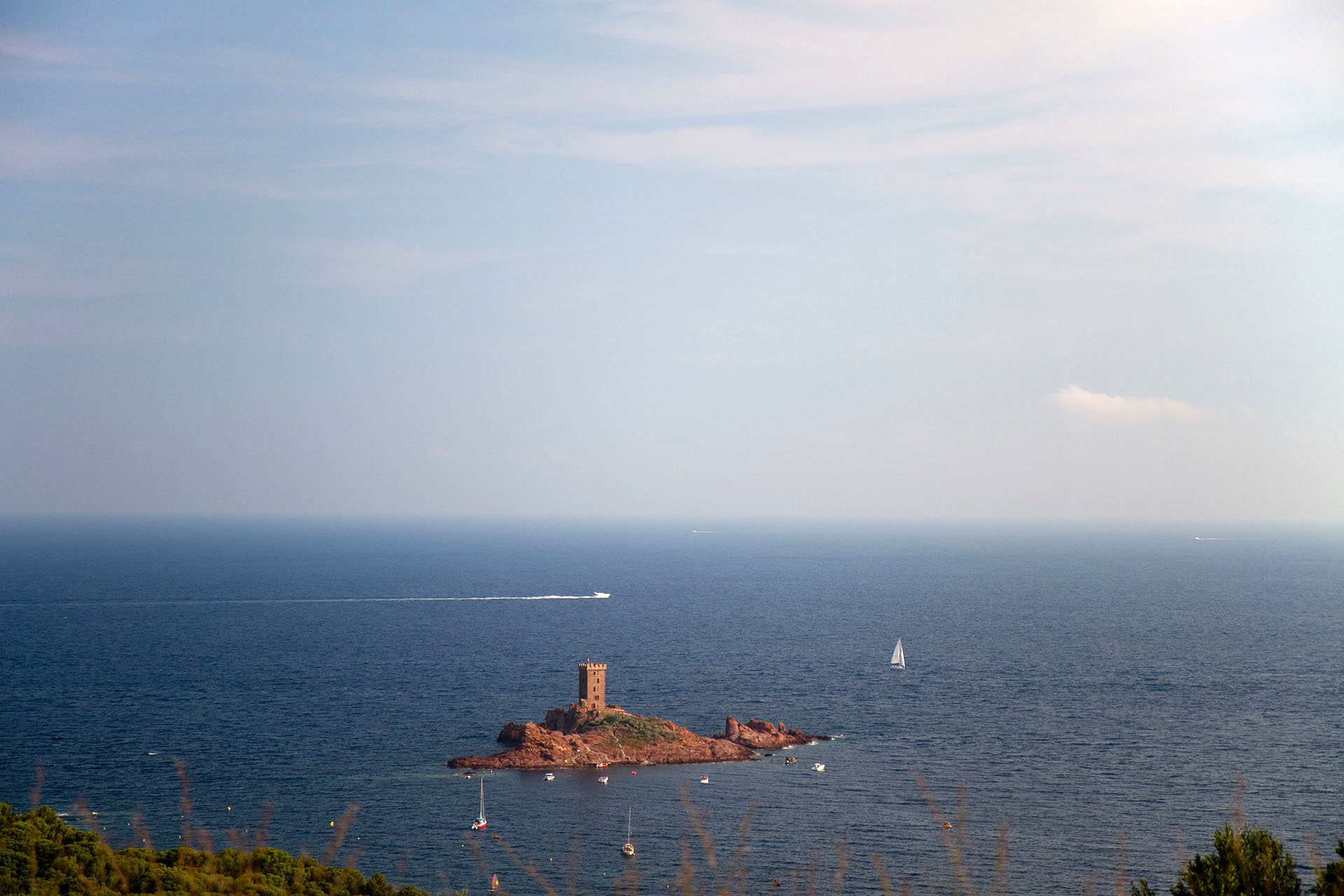 Île d’Or (“Island of Gold”), on the French Riviera near Saint-Raphaël (Var, Provence-Alpes-Côte d’Azur, France), as seen from Cap Esterel.